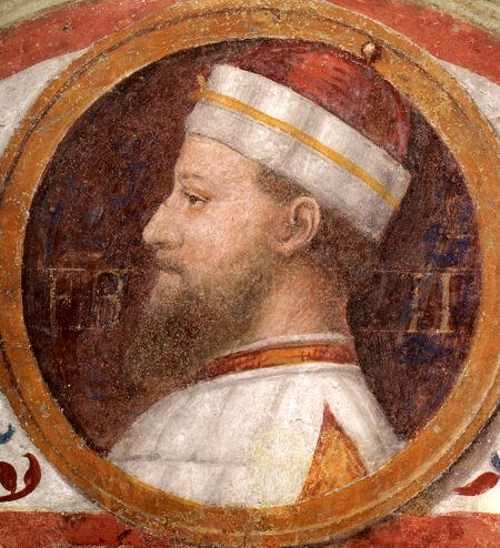 Francesco II Sforza in a portrait by Bernardino Luini, 1521